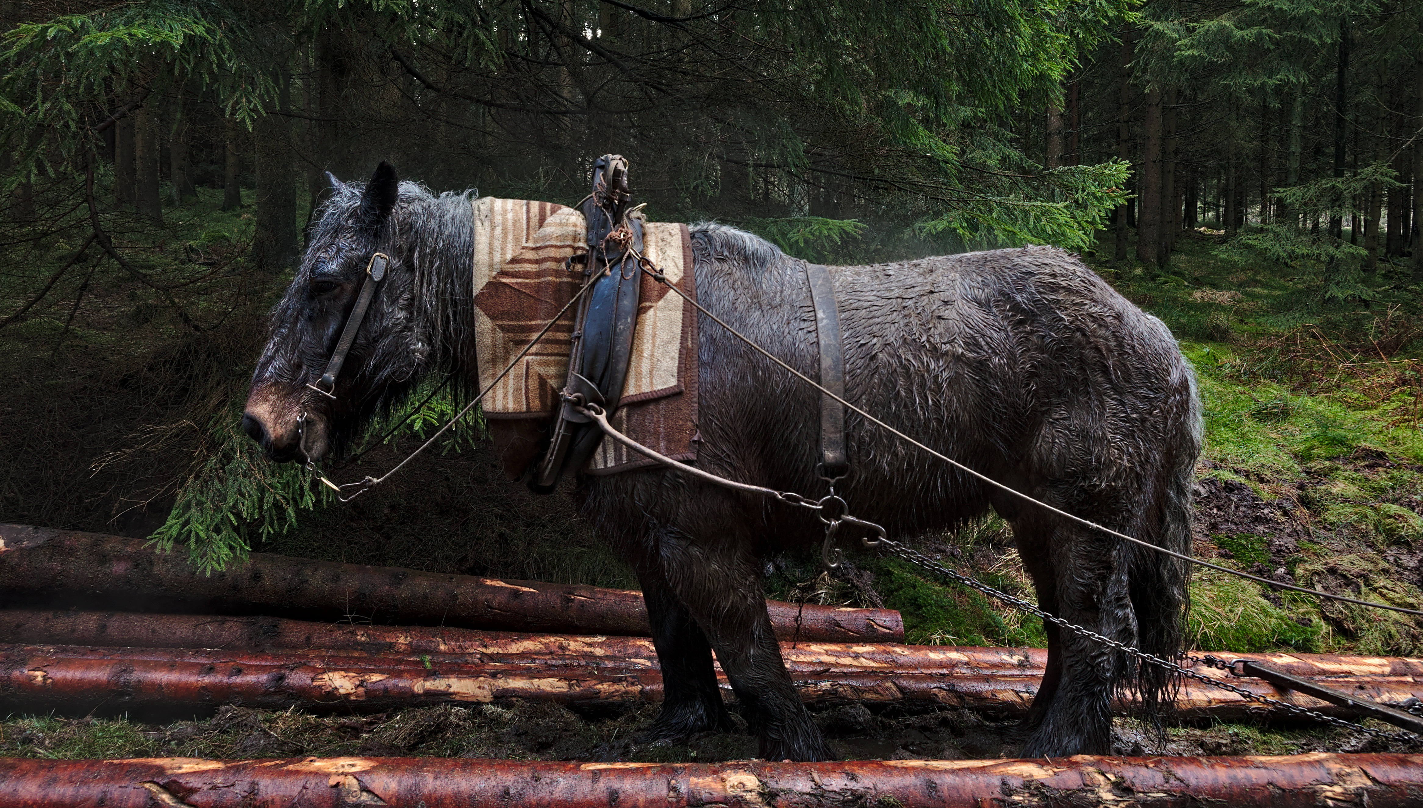 Draft horse pulling logs in High Fens – Eifel Nature Park, Eupen, Belgium (VeloTour intersection 54 to 55))